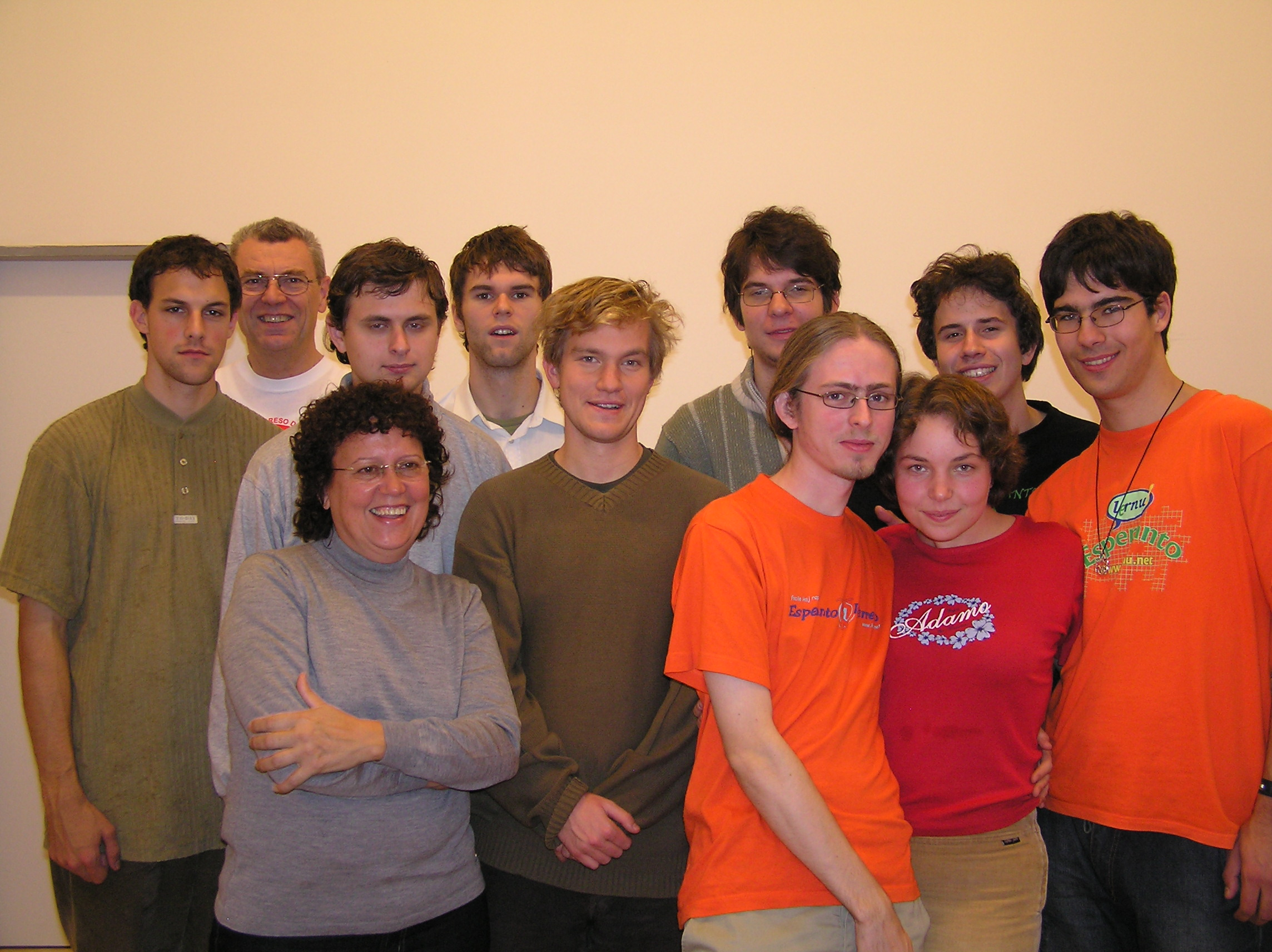 Participants of the meeting of Czech Esperanto Youth in Světlá nad Sázavou (2007).